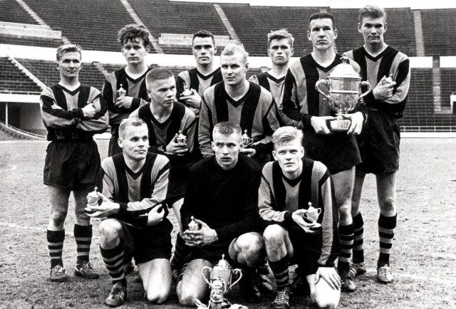 1964 Finnish Cup champions Reipas Lahti.